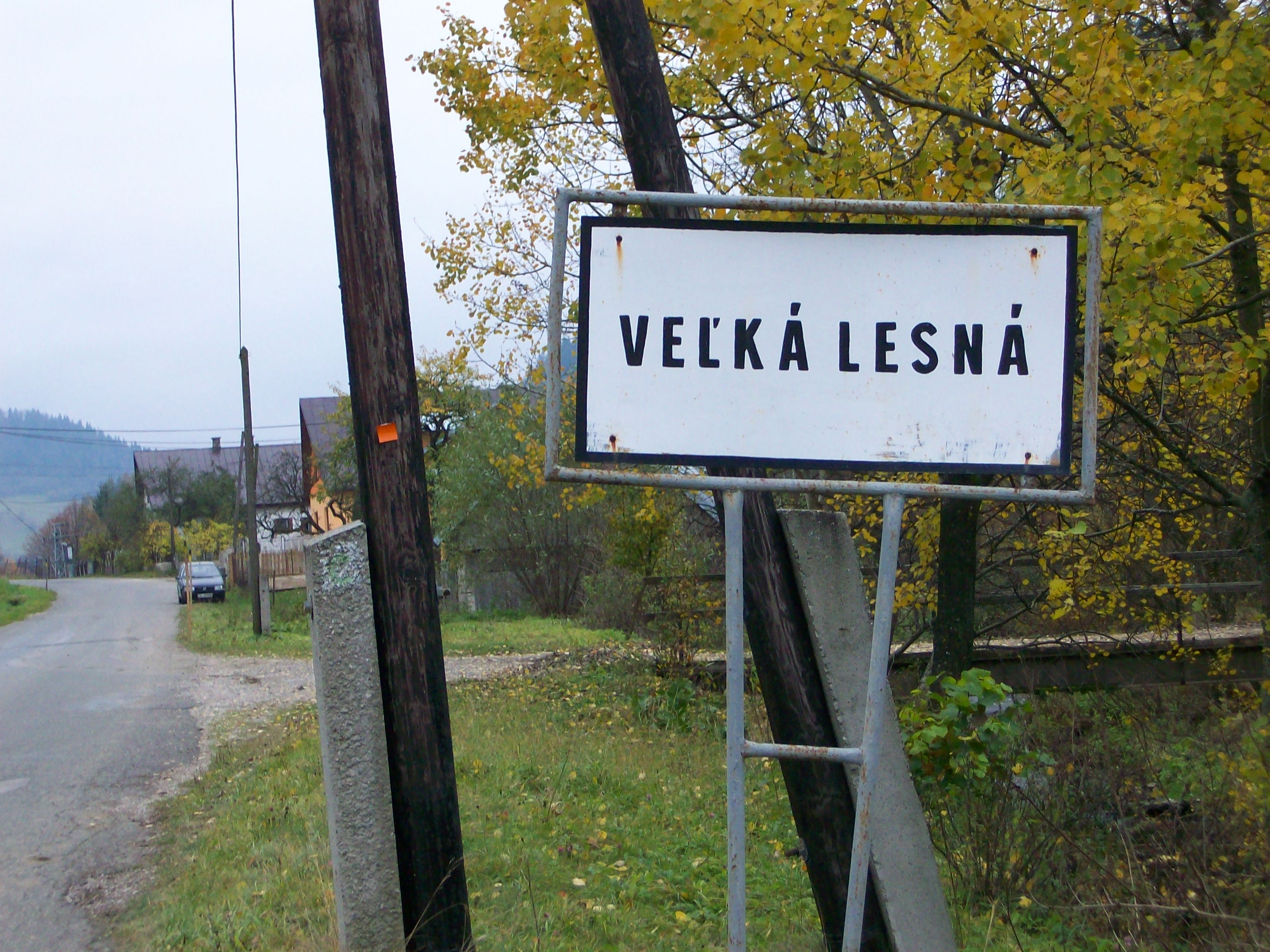 Velka Lesna border